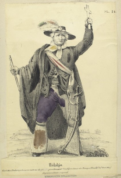 Miguel Hidalgo in its military uniform. Hand colored lithograph (Vinkhuijzen collection)